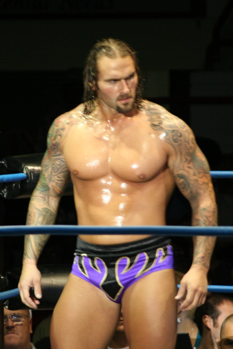 Professional wrestler Gunner at a TNA live event.